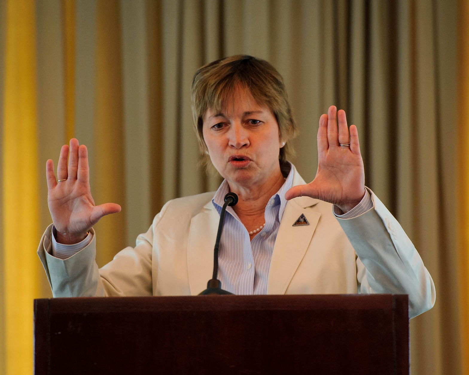 Maria Zuber, GRAIL Principal Investigator, from the Massachusetts Institute of Technology in Cambridge, describes how NASA's solar-powered Gravity Recovery And Interior Laboratory (GRAIL) Ebb and Flow spacecraft work to students and parents during the GRAIL MoonKAM student expo, Friday, June 1, 2012, in Washington.